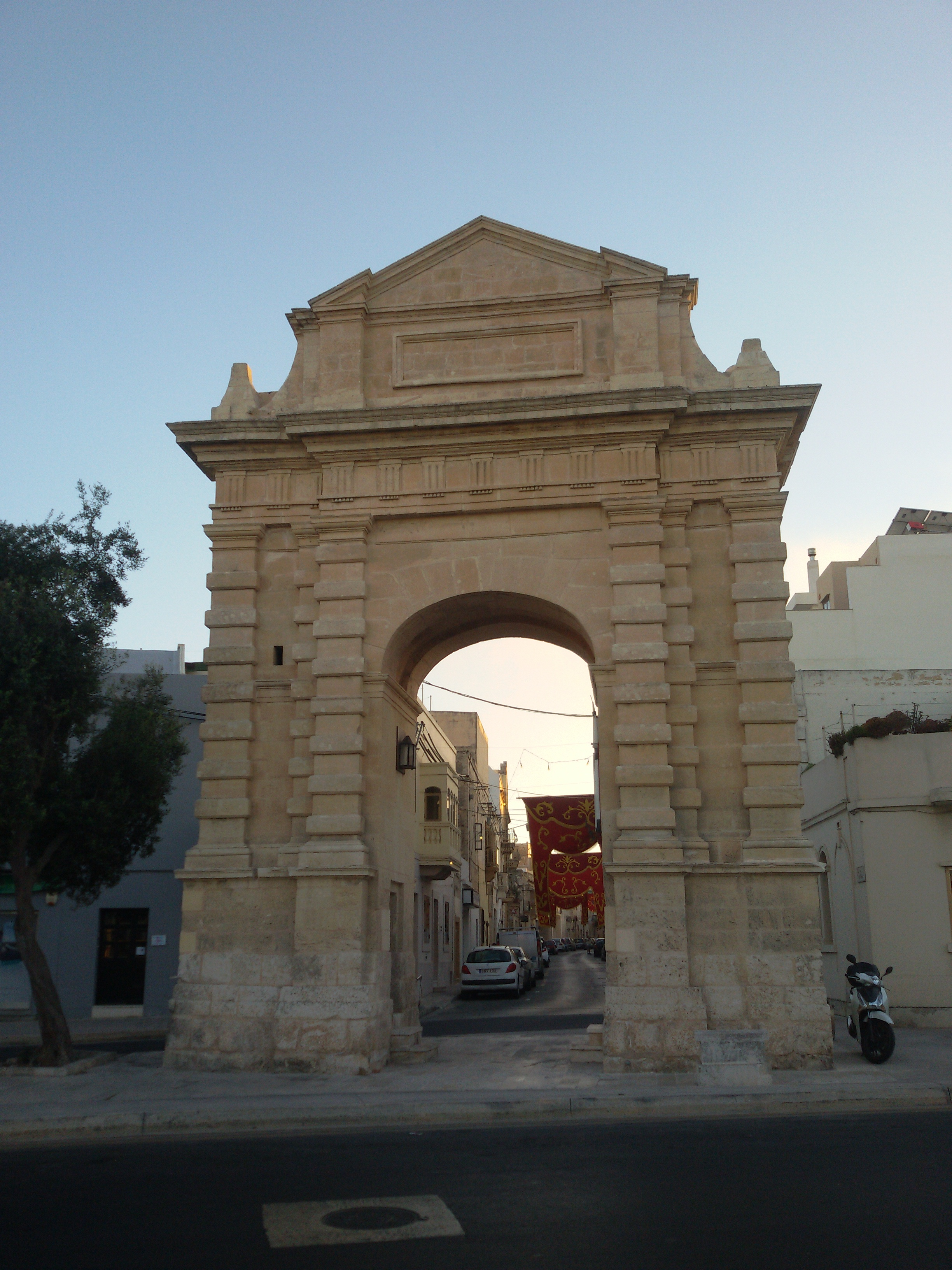 Niche of the Ecce Homo This media is about Maltese cultural property with inventory number 02231.